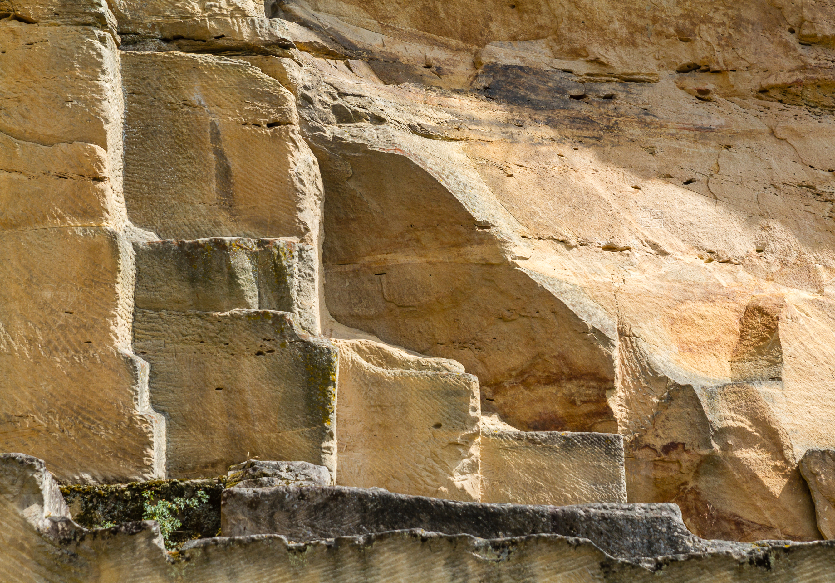 Designation: Kriemhildenstuhl Location: North of Bad Dürkheim, above the valley of the Isenach. Place: Bad Dürkheim, District Bad Dürkheim, Rhineland-Palatinate Construction time: 3rd century Description: Roman quarry, terraced mined quartz sandstone walls with inscriptions and drawings.